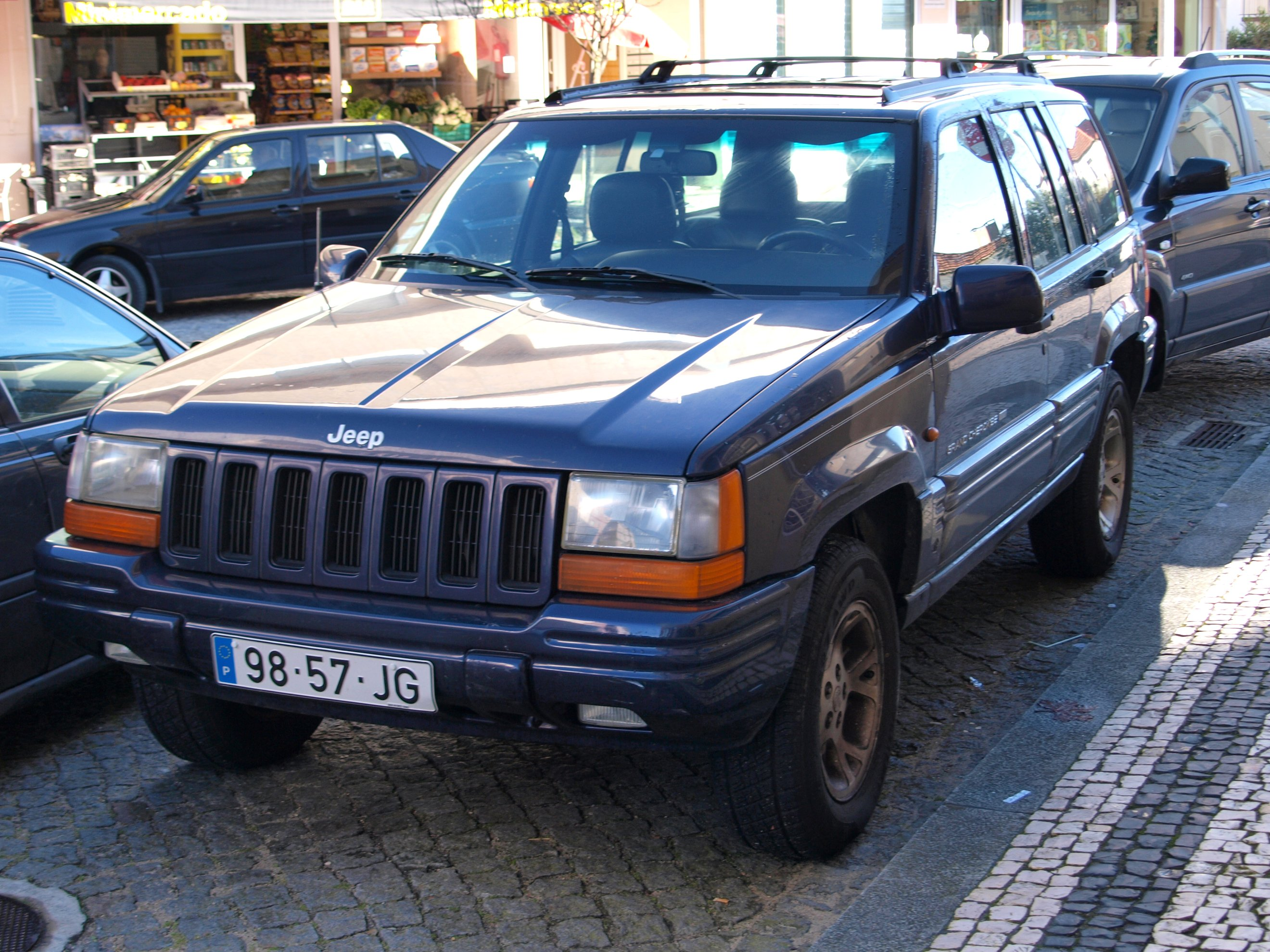 I quite like how these look in Euro-spec!